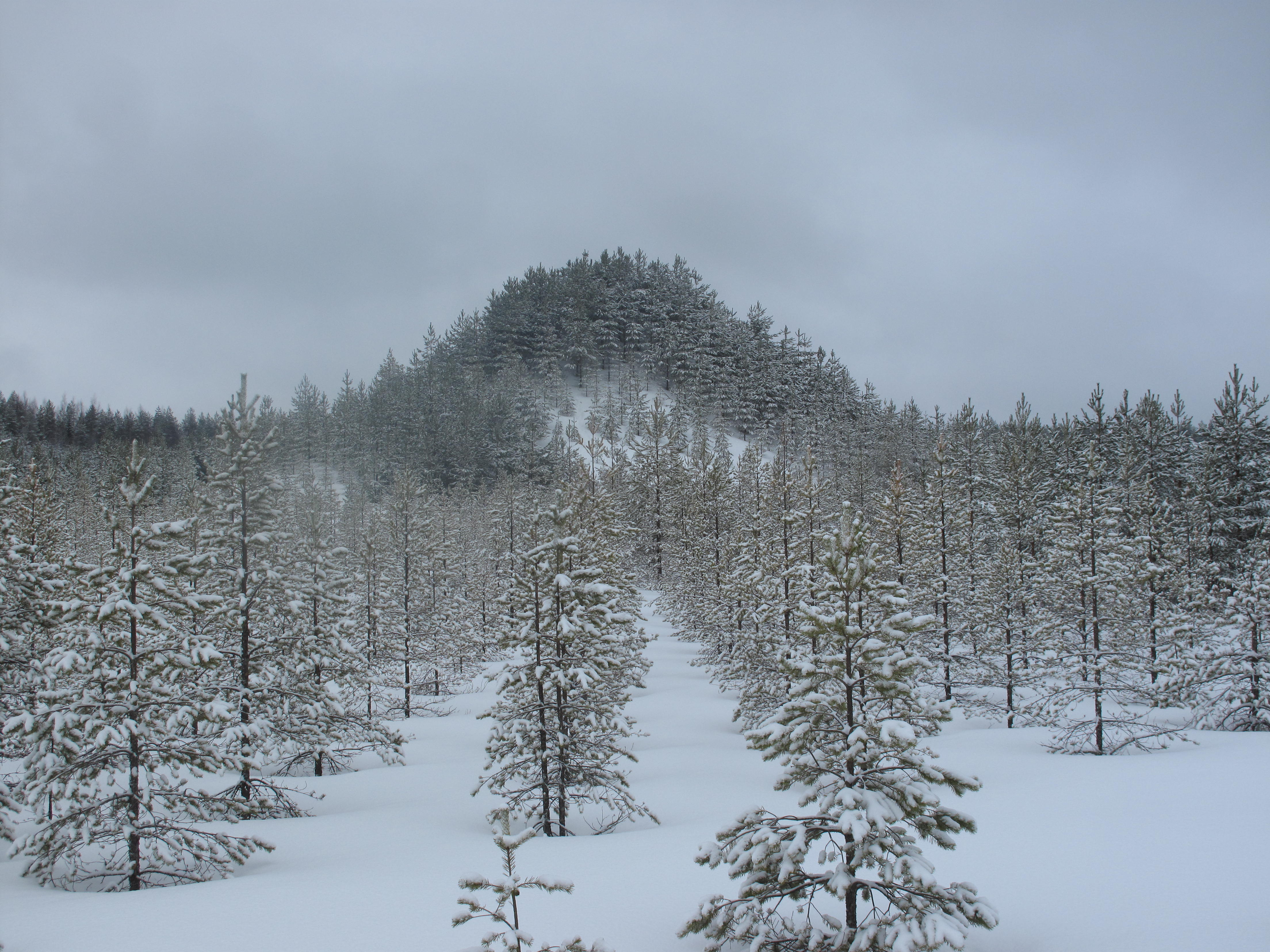 Tree Mountain installation by Agnes Denes in Julkujarvi, Pirkanmaa, Finland